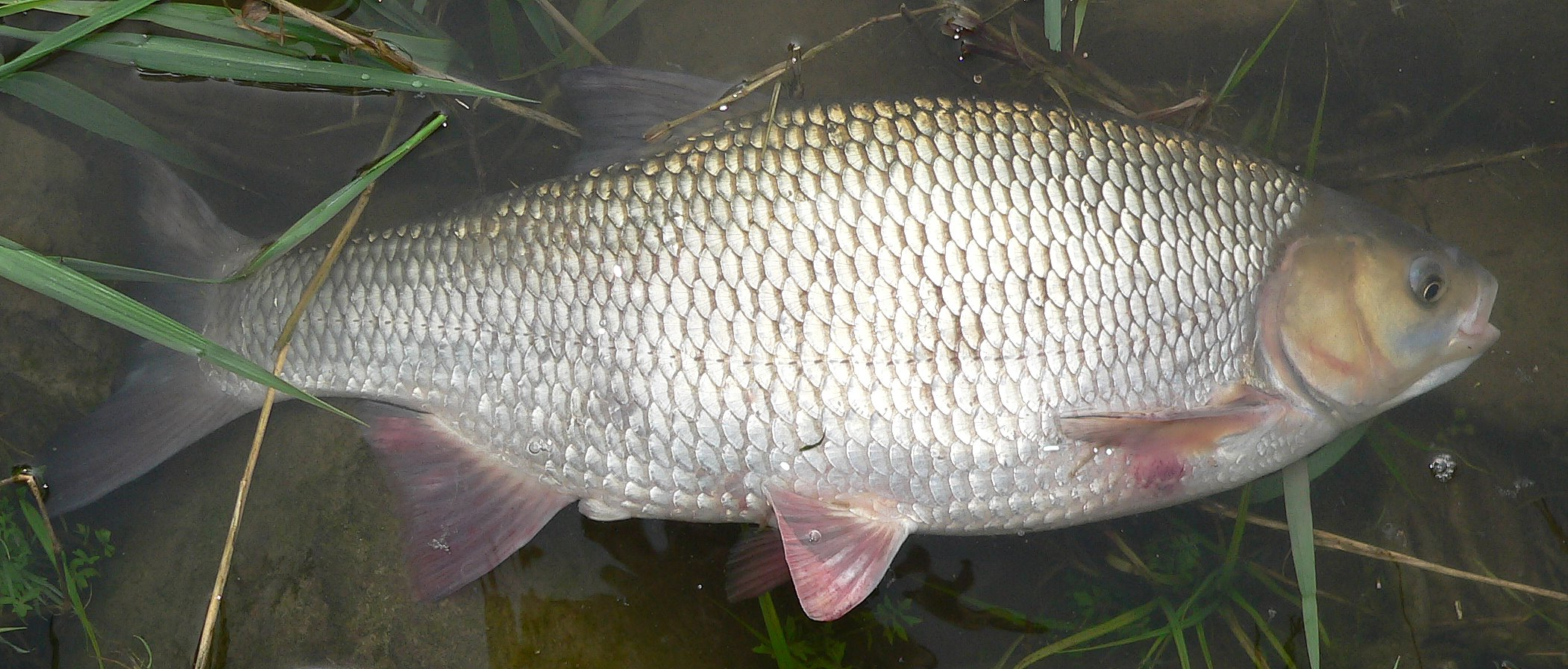 Big sized ide (56 cm) from the river Nederrijn near Arnhem.